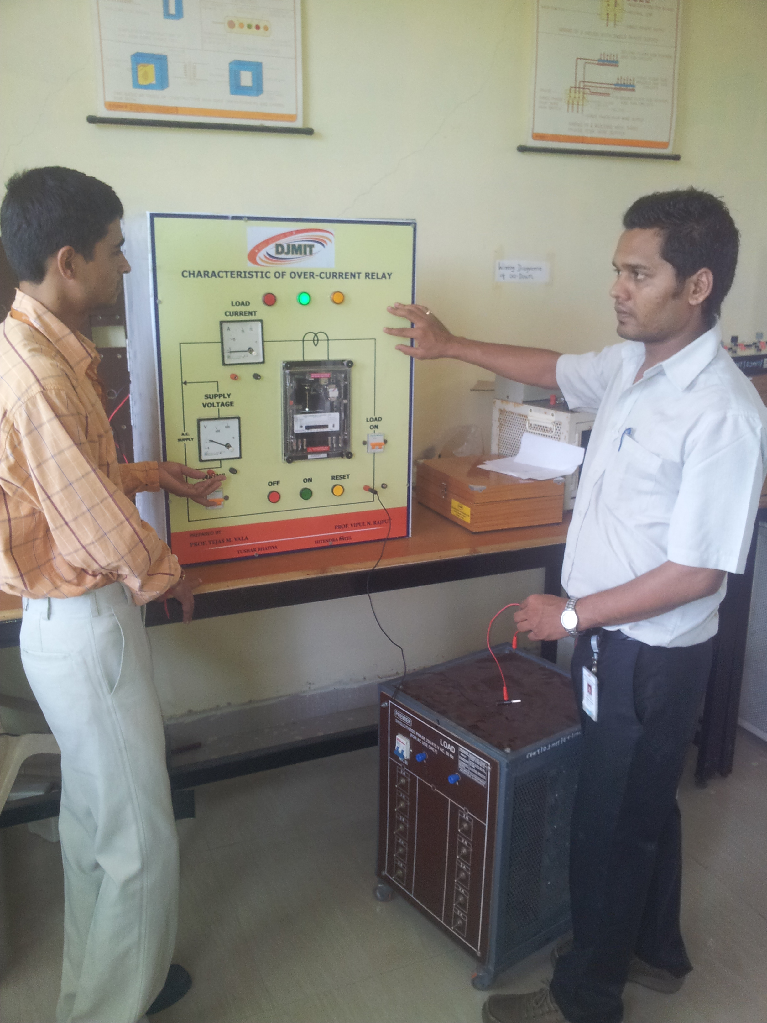 Protection Panel